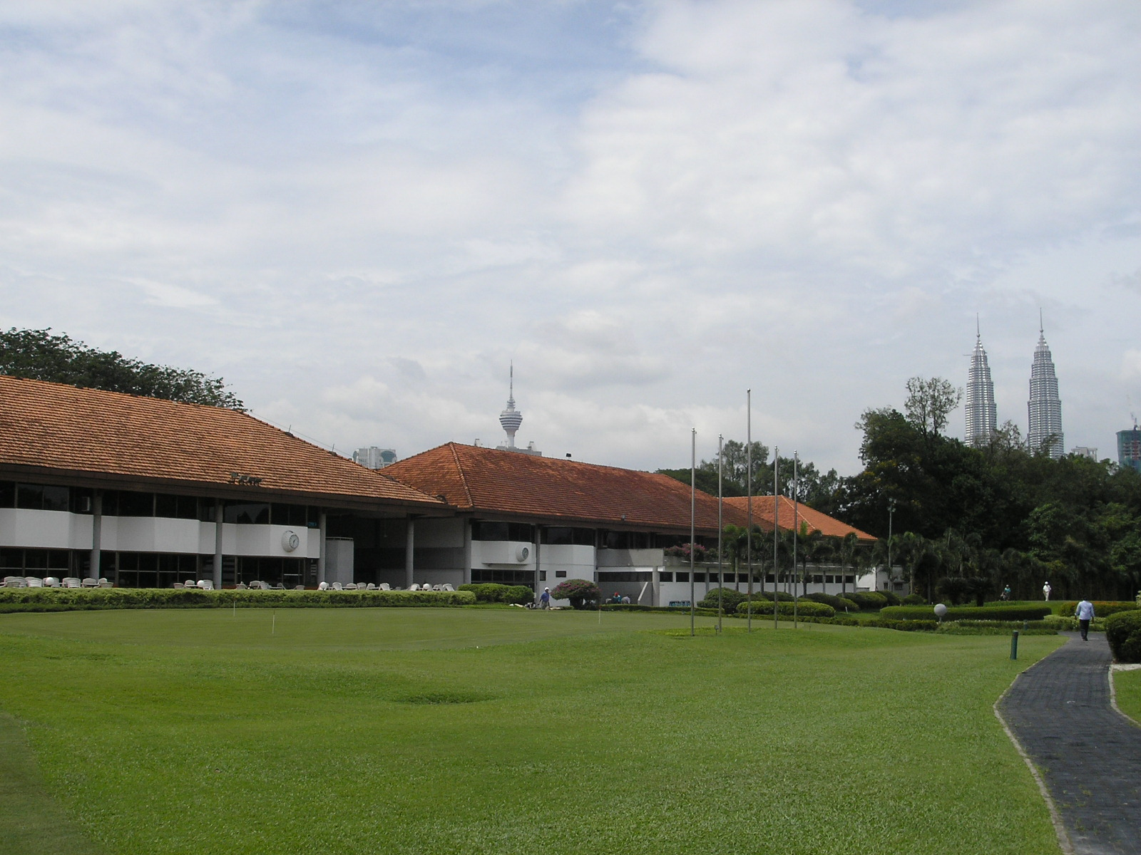 View of The Royal Selangor Golf Club in Kuala Lumpur, Malaysia.